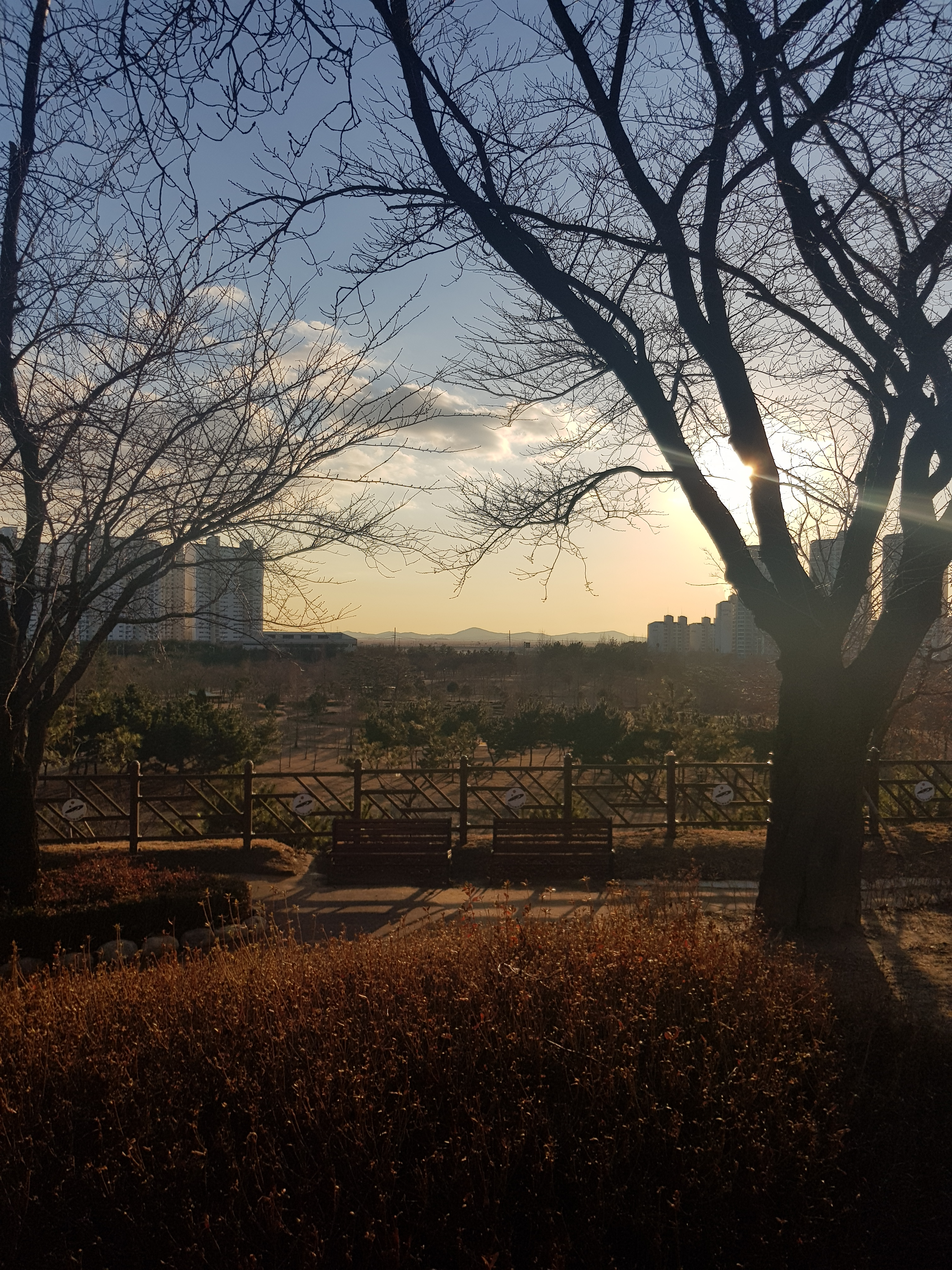 A view of Ansan Lake Park